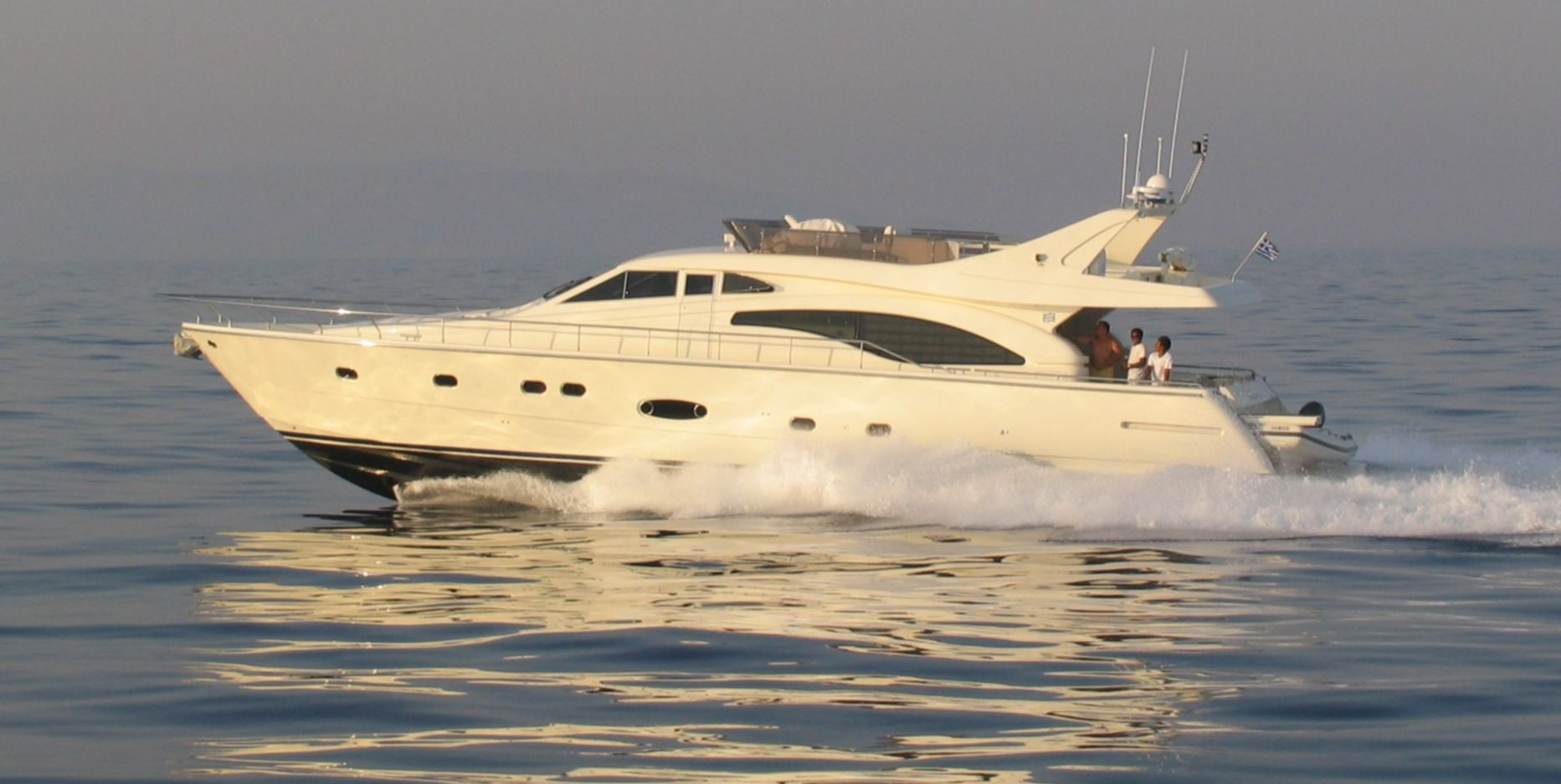 Shot it myself on the way from Sifnos to Glyfada. Beautiful calm day isn't it? I stopped and swam with a school of small dolphins a couple of miles off and felt their aura with my extended hands when I tried to caress them! Got too carried away? Who cares, the experience was unique!